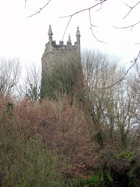 Old Kea Church Tower. The tower is all that remains of the 13th century church. At the request of Lord Falmouth of Tregothnan the tower was left standing as it was feature of the view from the estate. For more information see 385319